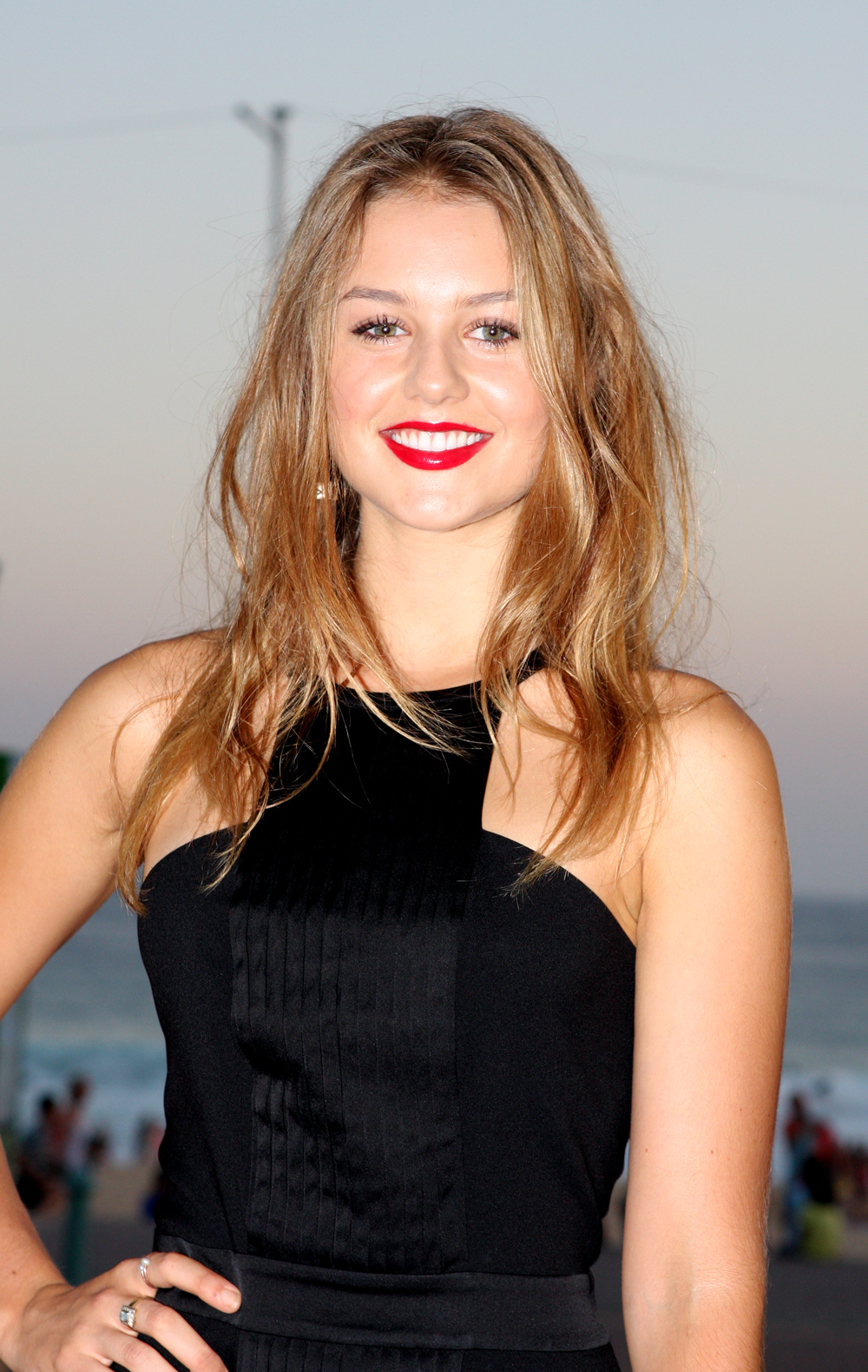 Flickerfest Short Film Festival opens at Bondi Pavilion, Bondi Beach, Sydney, Australia - 11th January 2013...